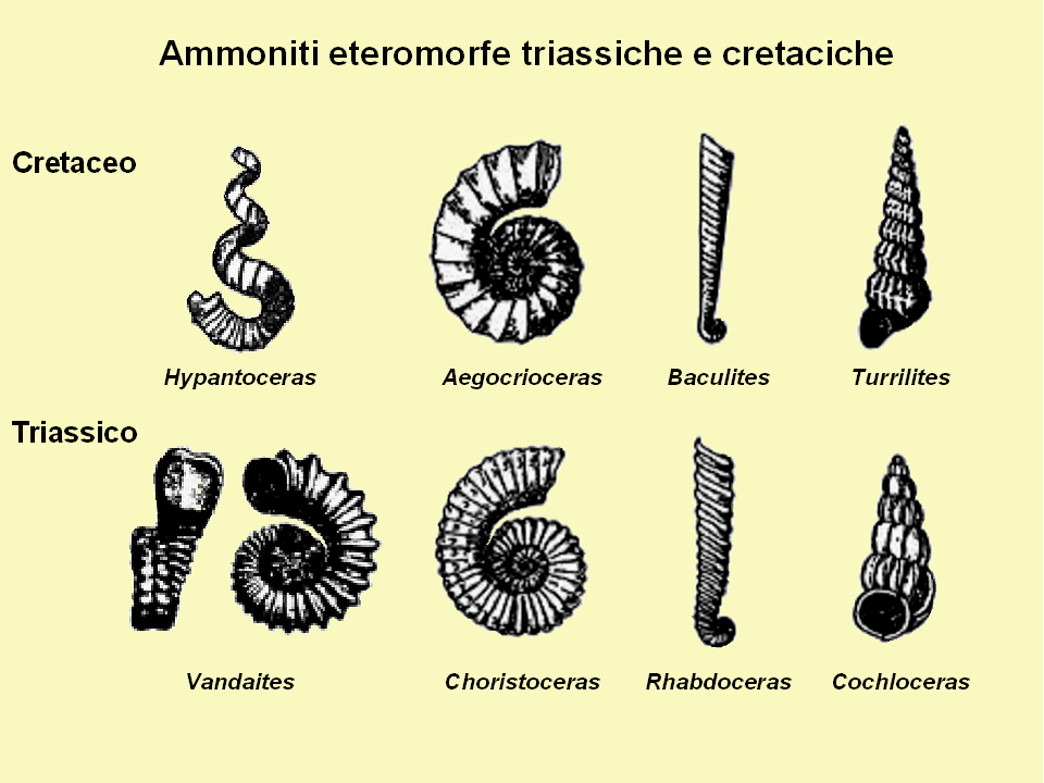 Comparison between some examples of eteromorph ammonite from Cretaceous and Triassic. From various authors, modified. Text in italian.